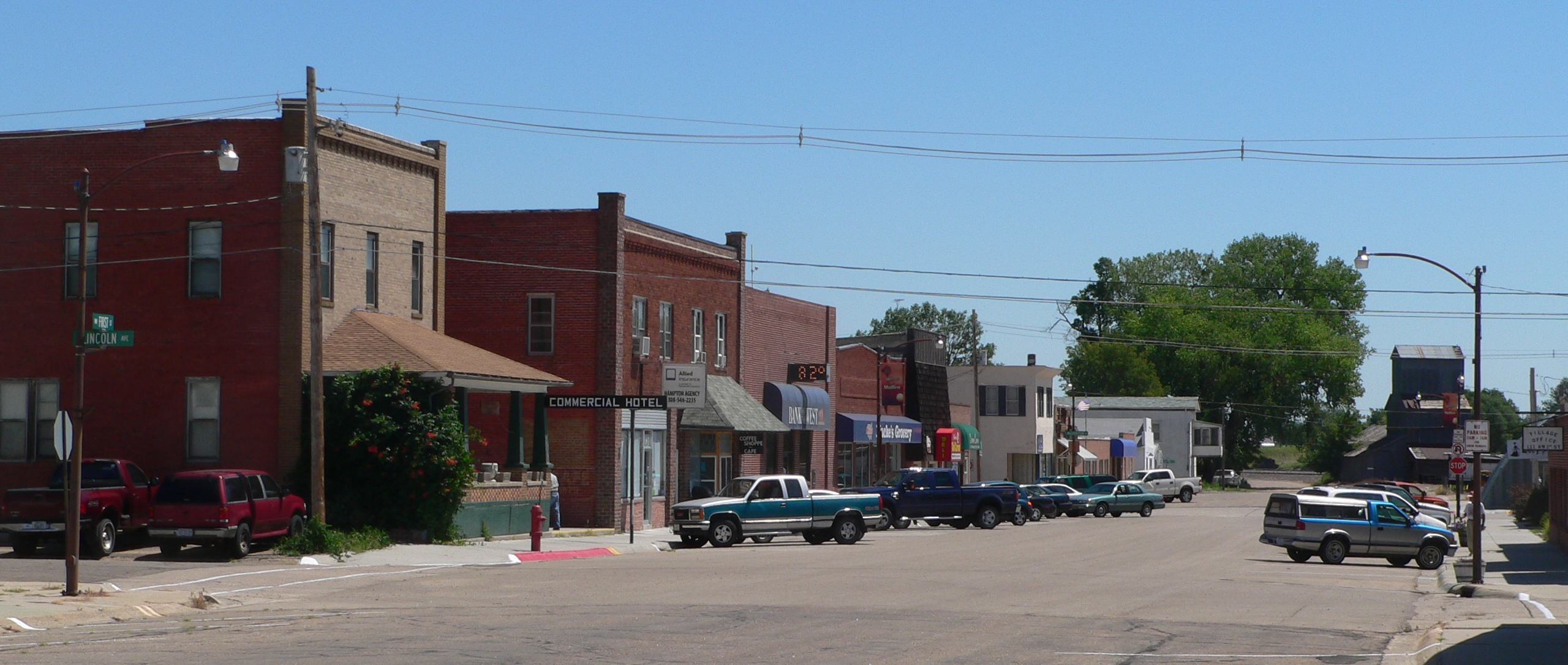 Downtown Mullen, Nebraska: First Street, looking northeast from about Lincoln Avenue.